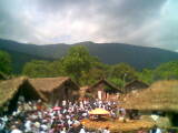 This is an image from Kottiyoor taken from Nokia 6020